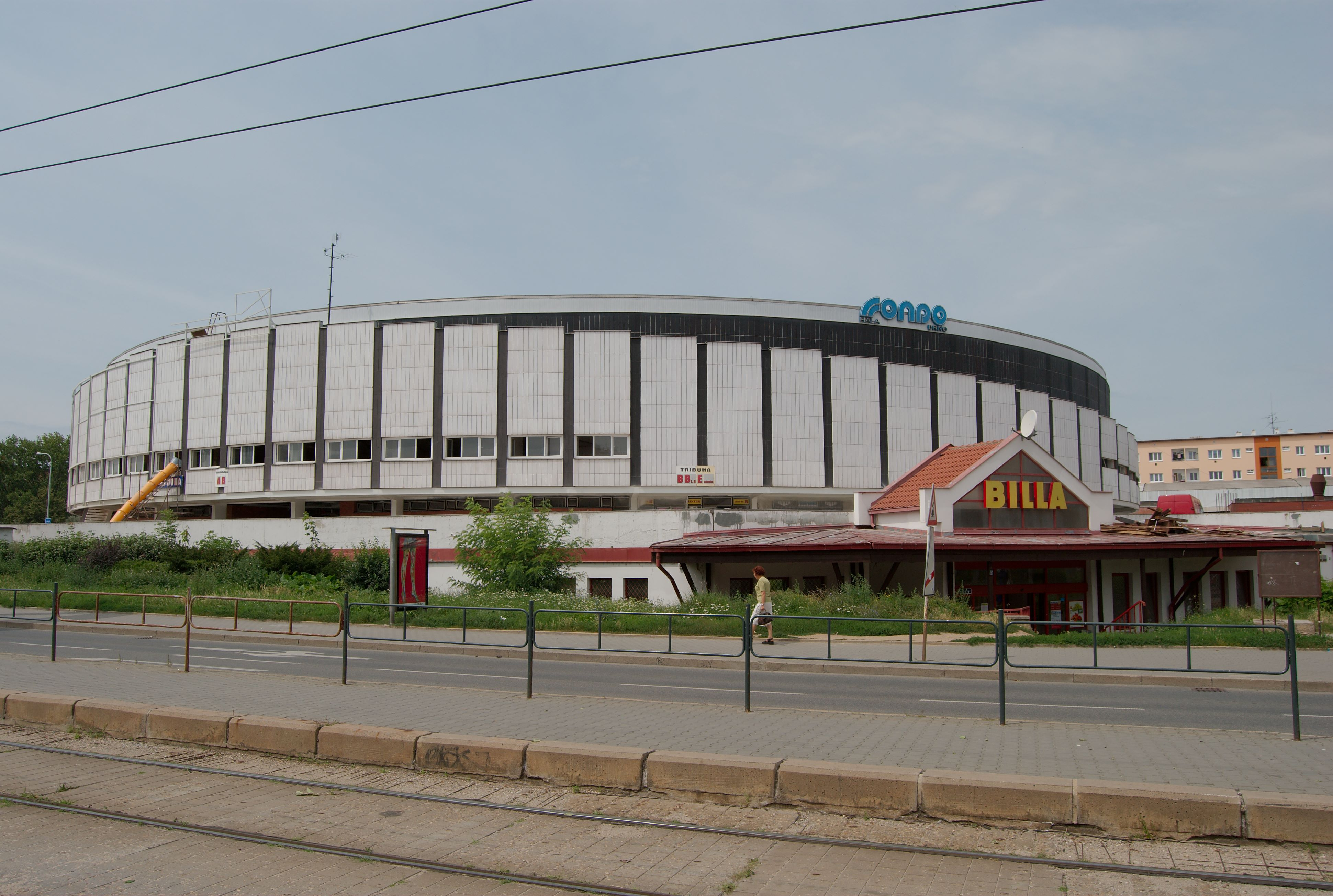 Old Brno - Rondo Hall